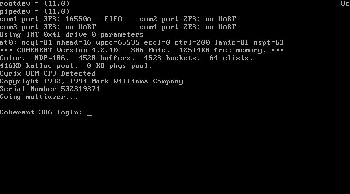 Coherent 4.2.10 for i386 running in QEMU with qemu-system-i386. System boot and login prompt.